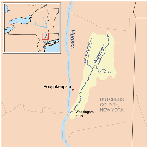 This is a map of the Wappinger Creek watershed.